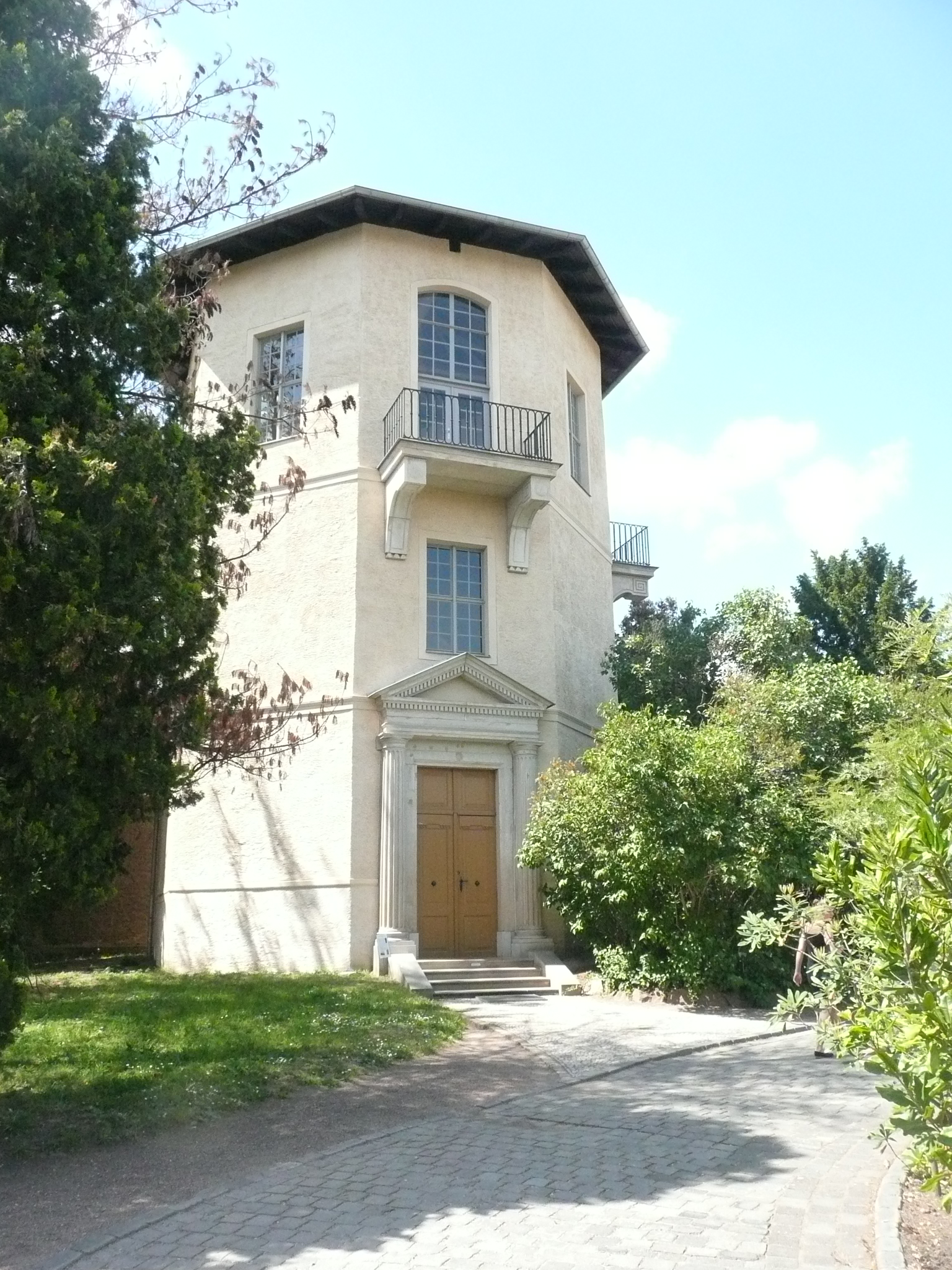 Botanical Garden, observatory from 1788, Halle (Saale)